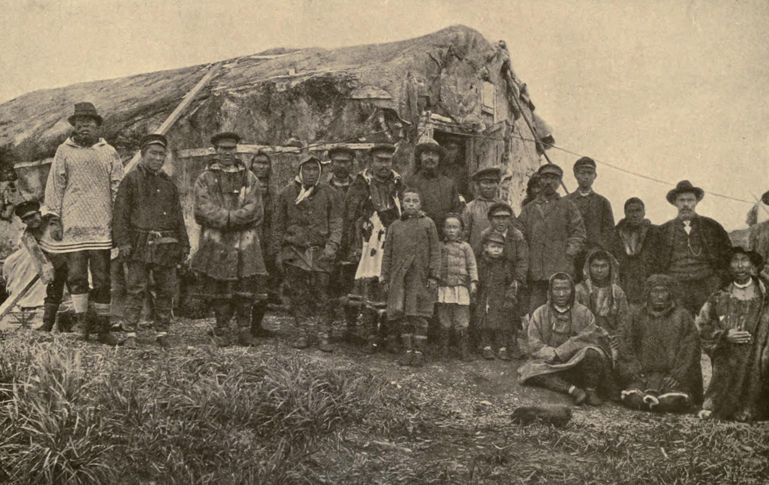 The photo shows men, women, and children in a mixture of native, Russian, and western dress lined up for a photo in front of a building. This photo is from Anadyr (Novo-Mariinsk) Russia in summer 1906. It is from a book describing a hunting/specimen-collecting trip. The building is roughly rectangular, having a peaked roof with the ridge parallel to the long axis of the building, and a framed door in the end. There appears to be a lintel or beam in the wall at about head height, the walls are possibly sod. The roof is covered with a flexible material, possibly a tarp, but not overlapping walrus skins as used on yarangas. The peak is rounded, suggesting the tarp is spread over sod or thatch. On the right front are four seated or kneeling women in traditional Chukchi dress. Behind them stands a large man in dark American-style clothes. He has a mustache and a broad-brimmed hat. In the middle of the picture is a group (5 men, 2 women, a pre-teen or teen-aged boy, and 4 young children) who appear to be Siberian natives or Metis in Russian dress (the men mostly wear military-style caps and cloth coats, the women wear scarves). In the middle of this group, in front of the building and behind the children, is a taller man with a mustache and a Russian-style fur hat. Behind him a tall thin man with a military-style cap is barely visible in the doorway of the building. Further to the left, and in front, are two standing men in distinctive dress, One wears a (fur?) overcoat and military style cap, the other has a rounder, more oriental-appearing face and wears a short, belted cloth coat and a short-brimmed cap. At the left end of the group is a tall man in Chukchi dress with a western-style hat; a small boy peeks from behind him. There may be one more person mostly hidden behind the central group. Clumps of grass grow on the slope in front of the group.